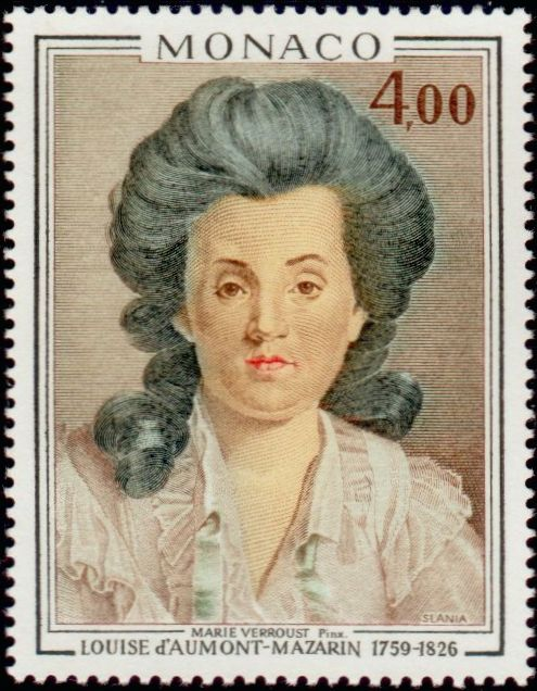 Stamp of Louise d'Aumont